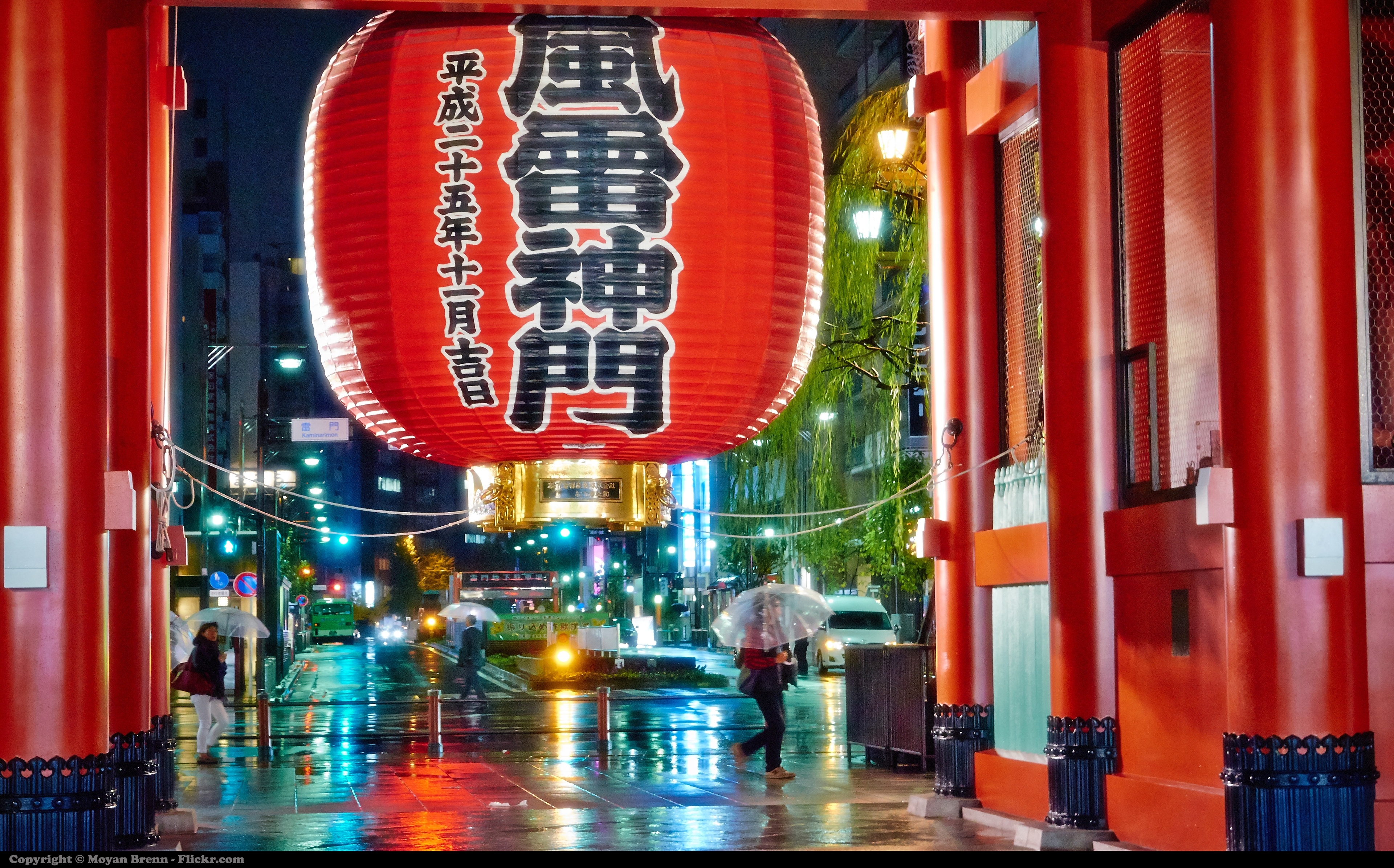 the popular paper lantern of Asakusa district in Taito near the Sensoji temple